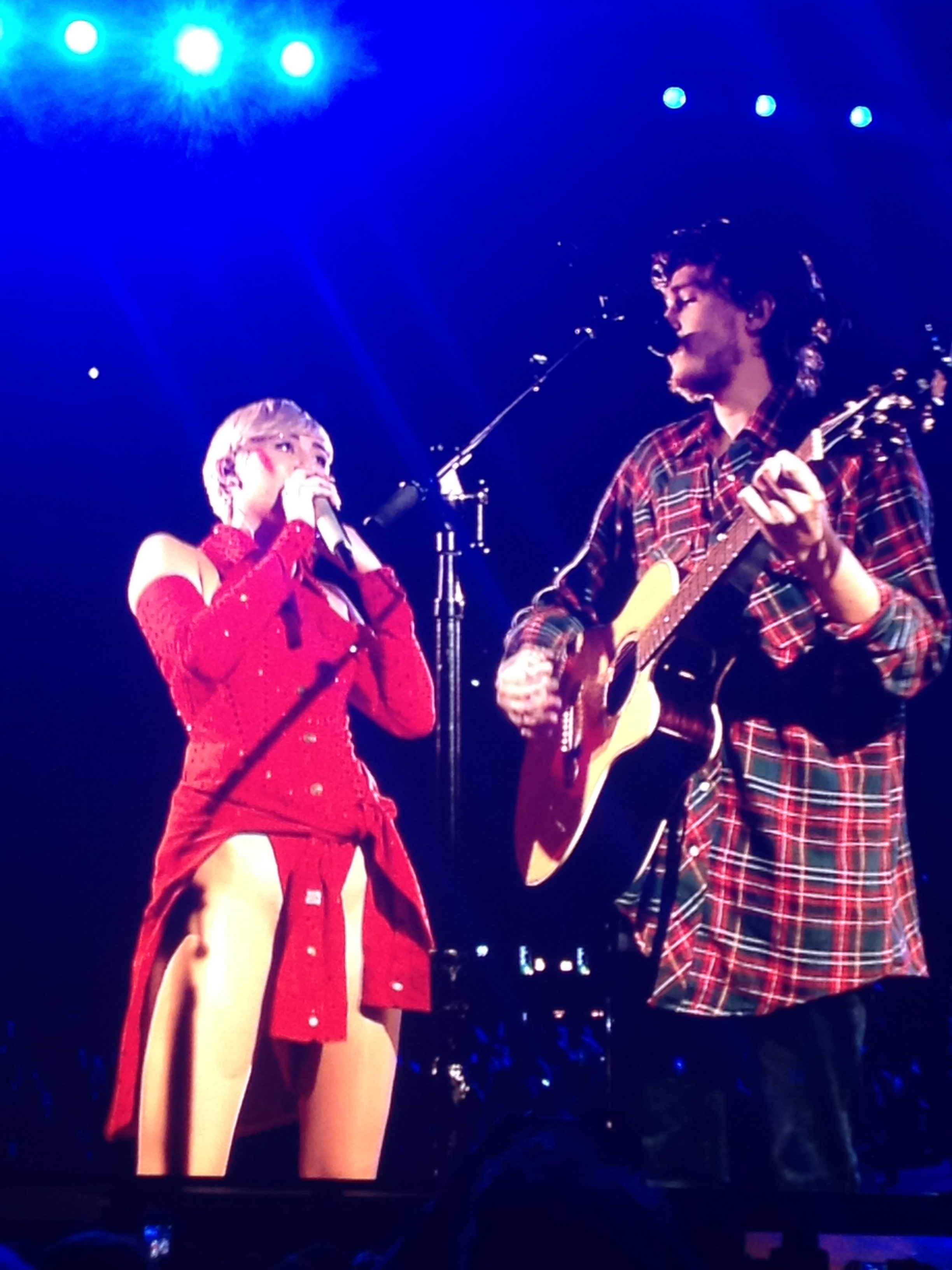 Miley Cyrus during her acoustic set in Amsterdam on June 22nd.